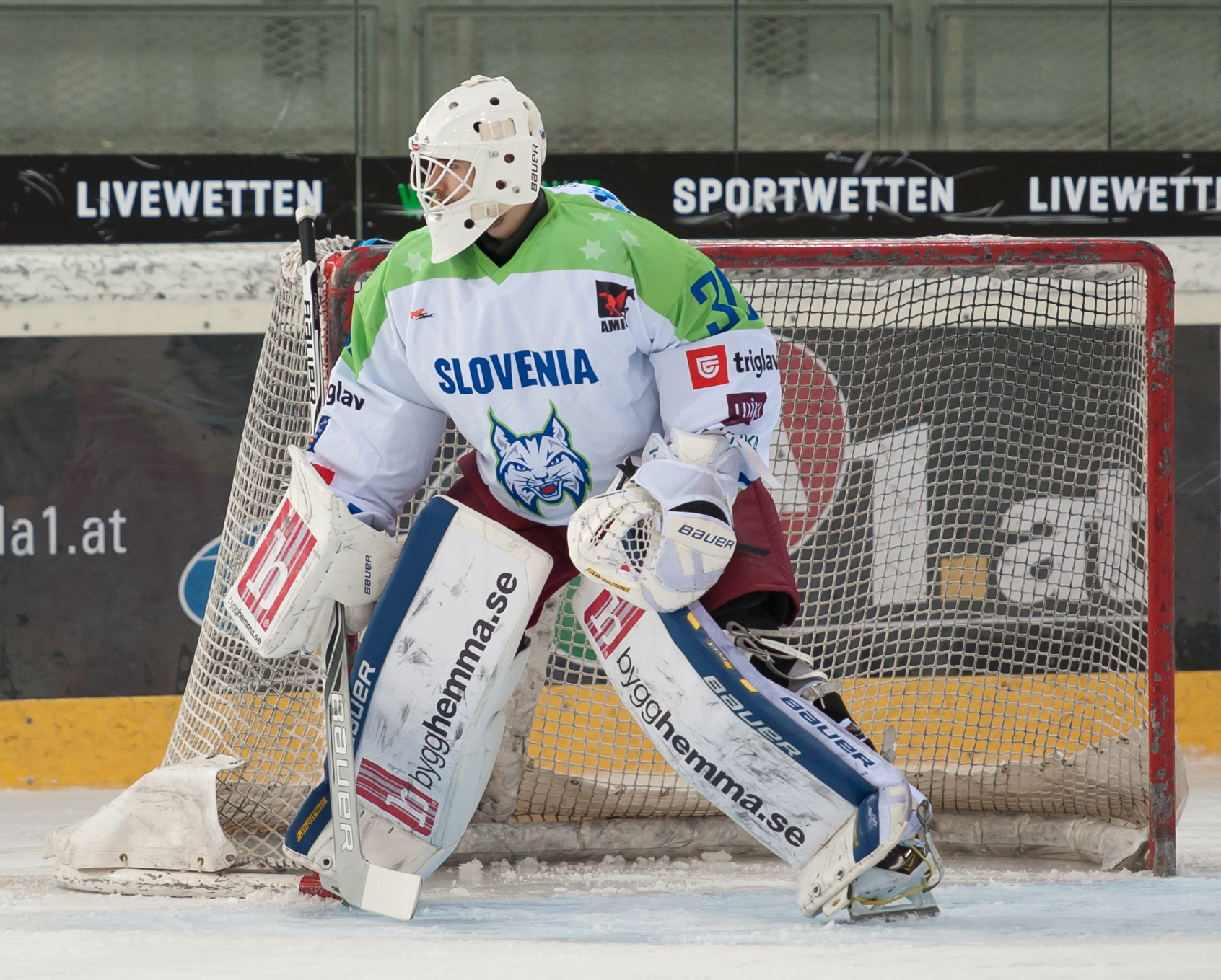 Euro Ice Hockey Challenge Vienna, February 7, 2015, Italy vs. Slovenia